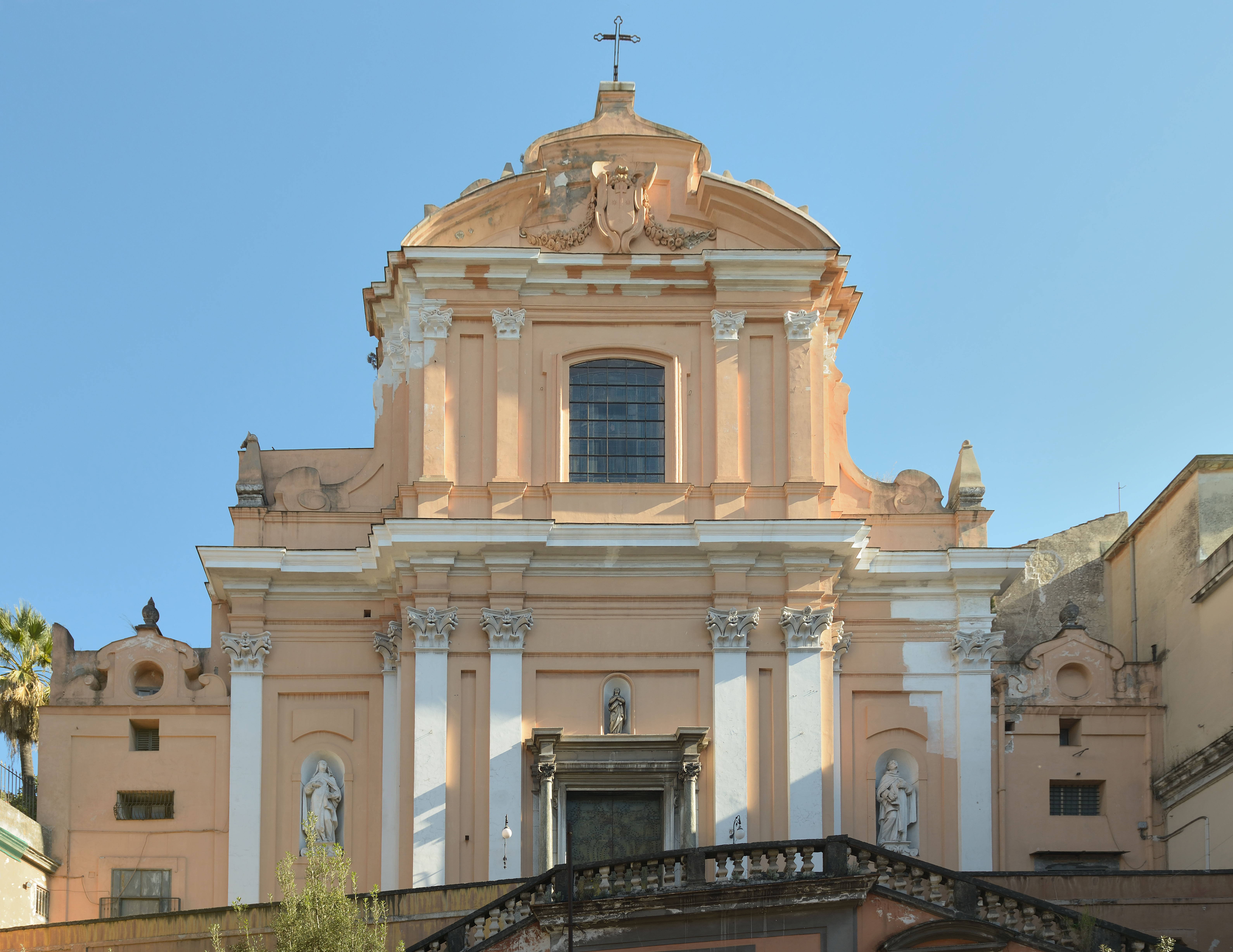 The Chiesa di Santa Teresa degli Scalzi church in Naples.